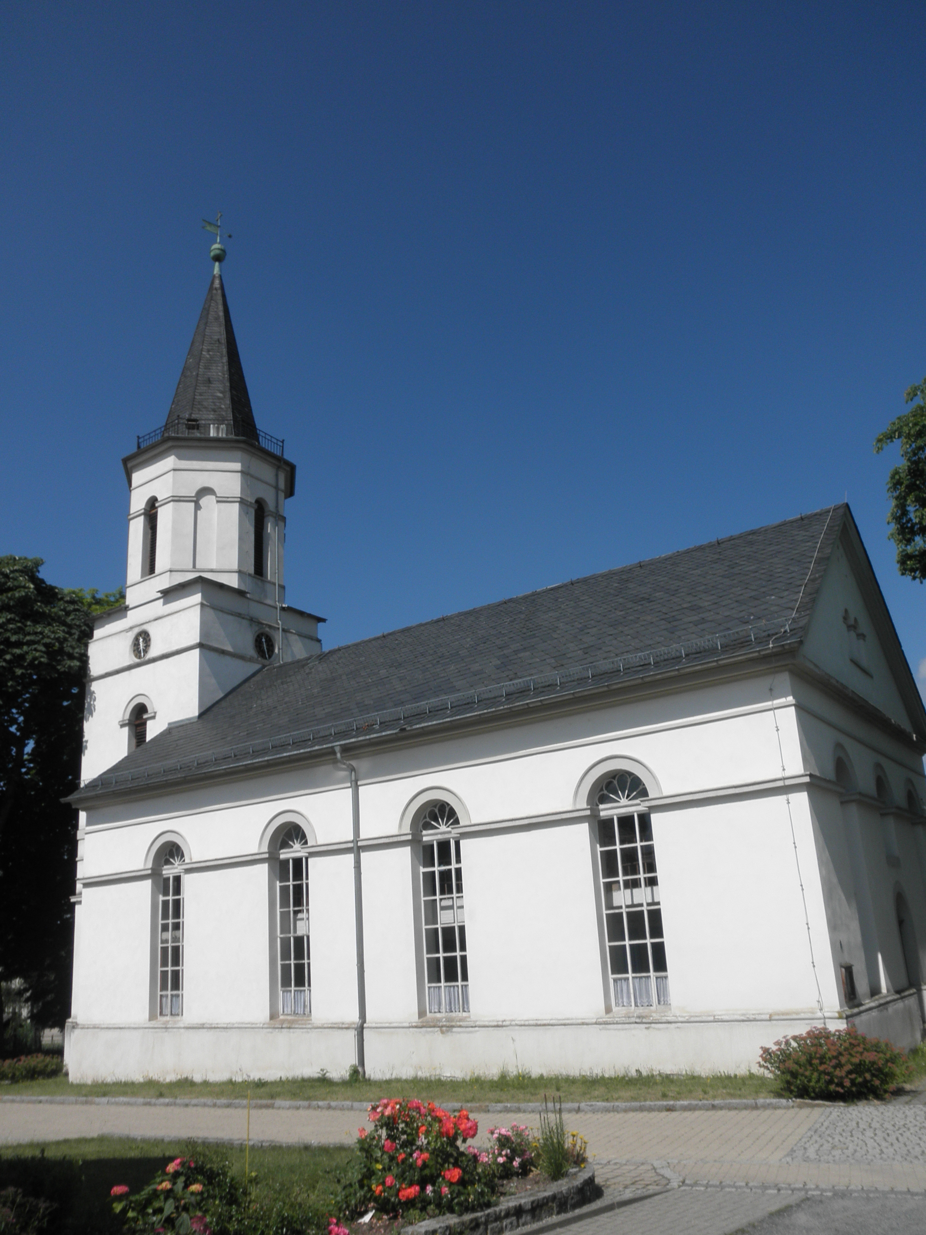 Church in Wilhelmsdorf (Saale) in Thuringia